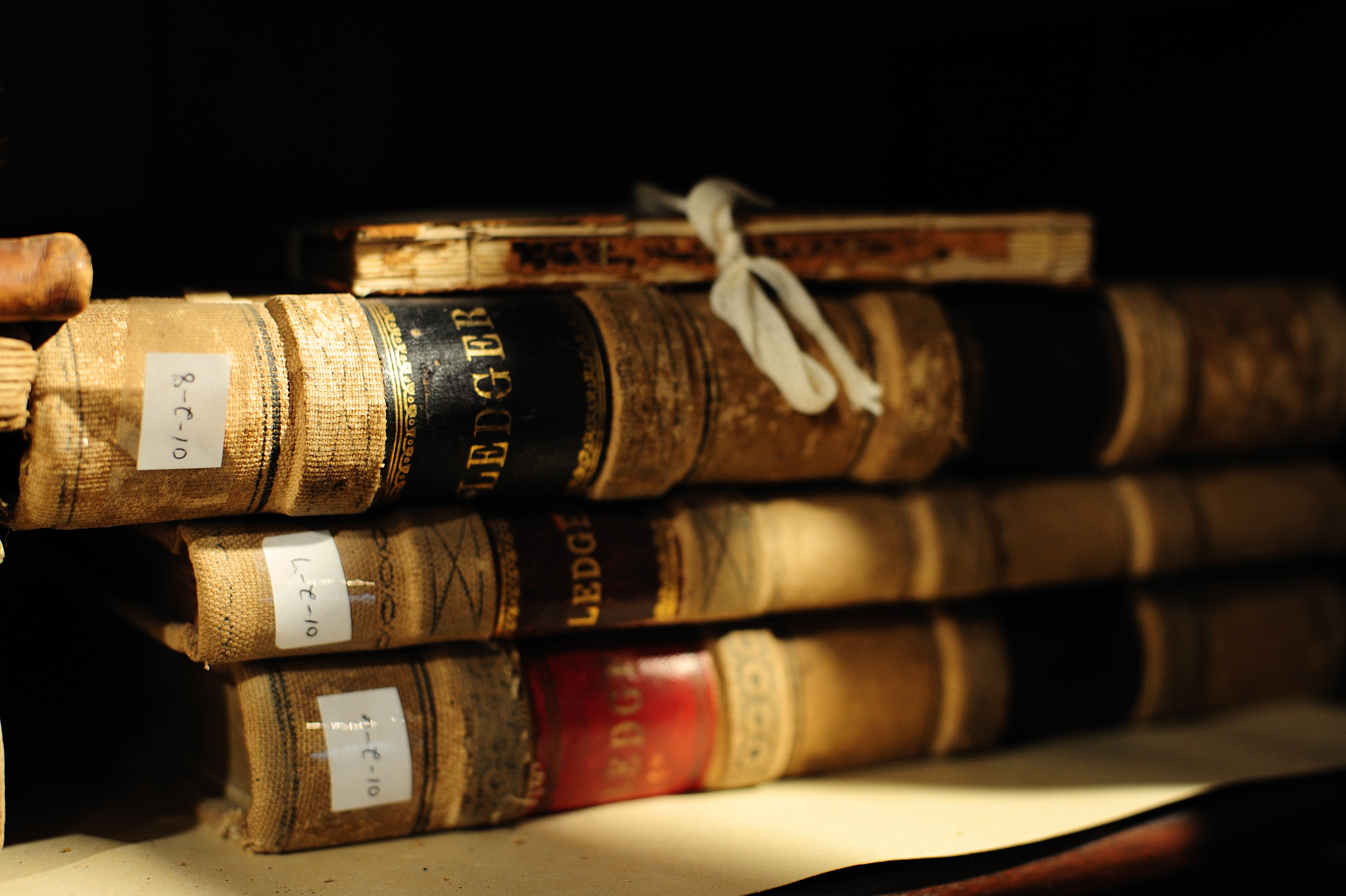 Basking Ridge Historical Society View Large on Black See where this picture was taken. [?]